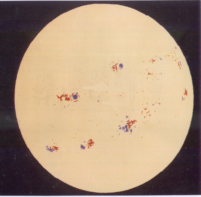 Solar magnetogram. Two bands of active regions are seen on opposite sides of the solar equator. Magnetic fields pointing upward and downward are coded as red and blue. The active regions in the two opposite latitude bands have opposite magnetic field patterns. Some photoshopping in the yellow area near the center of the image was necessary to remove damage in the photographic print.